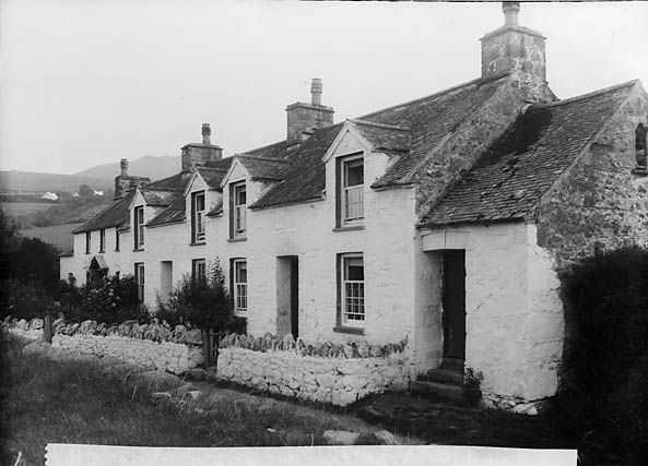 1 negative : glass, dry plate, b&w ; 12 x 16.5 cm.